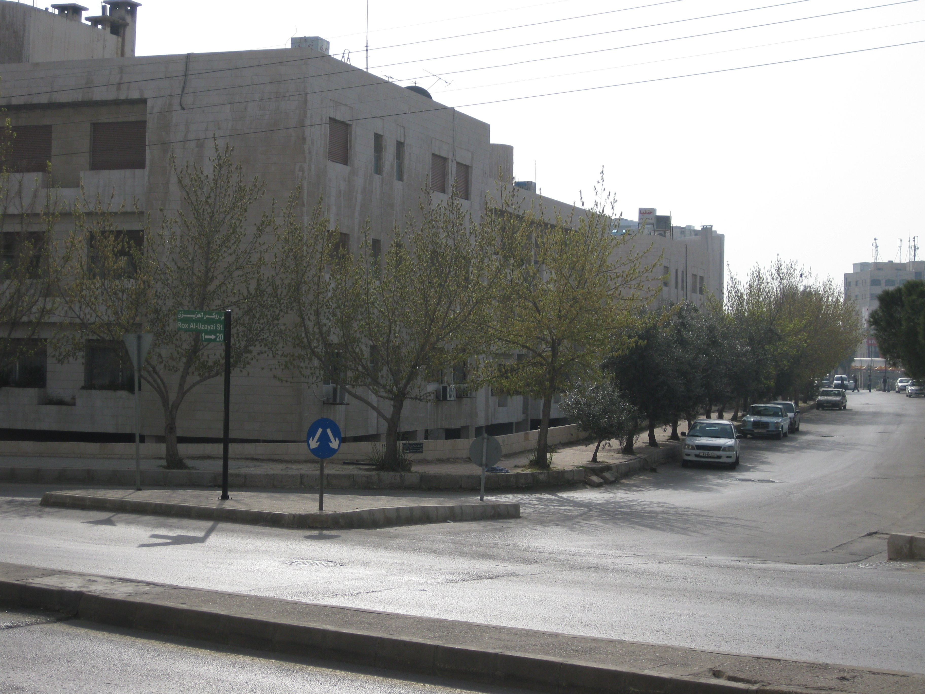 Amman Street signs (Rox Al Uzayzi Street.JPG)